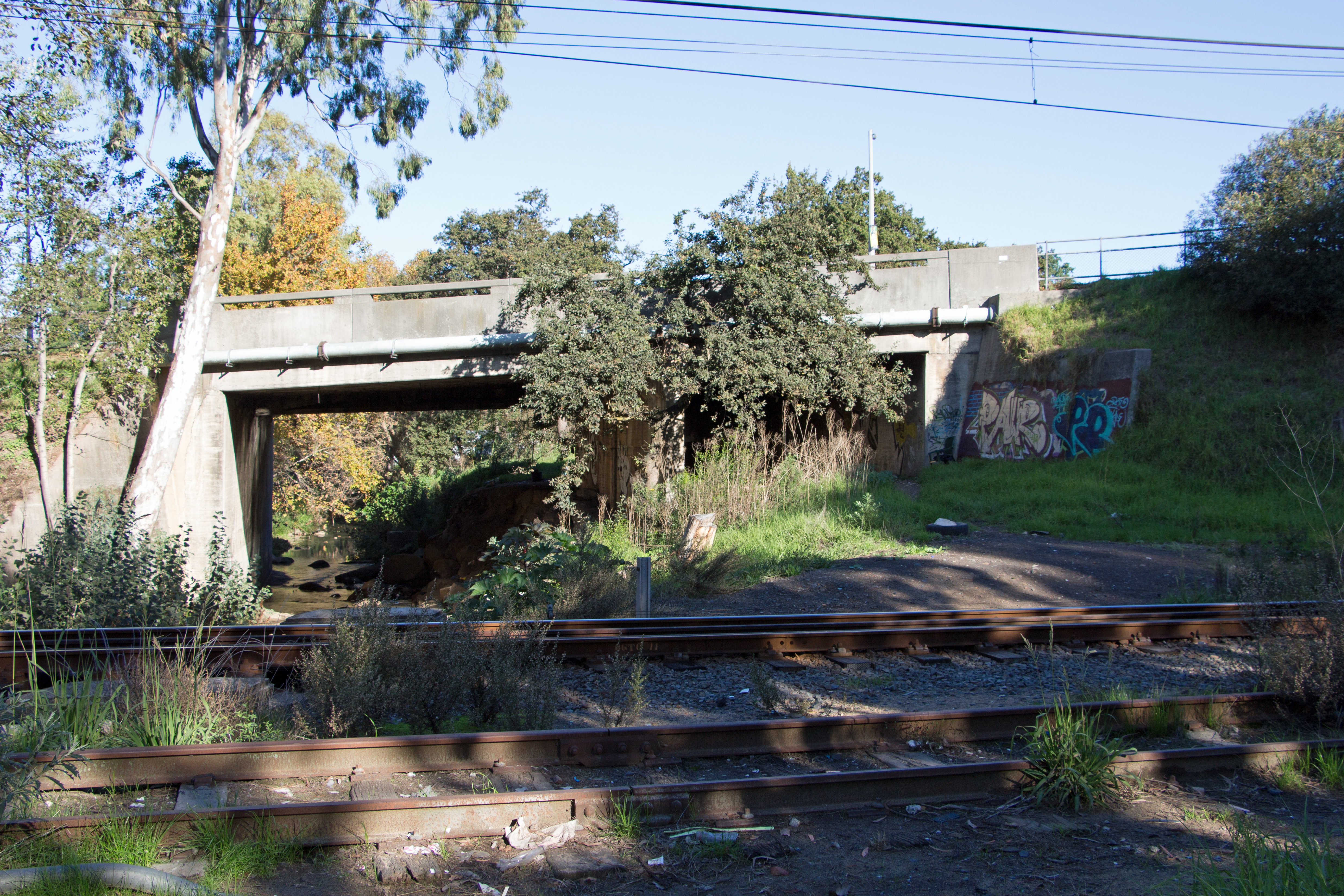 Adam Tas Bridge at the western entrance to Stellenbosch, South Africa (viewed from Bosman's Crossing side)